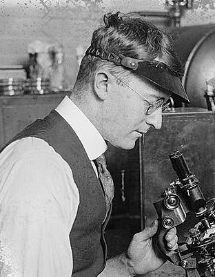 Herbert Morrison